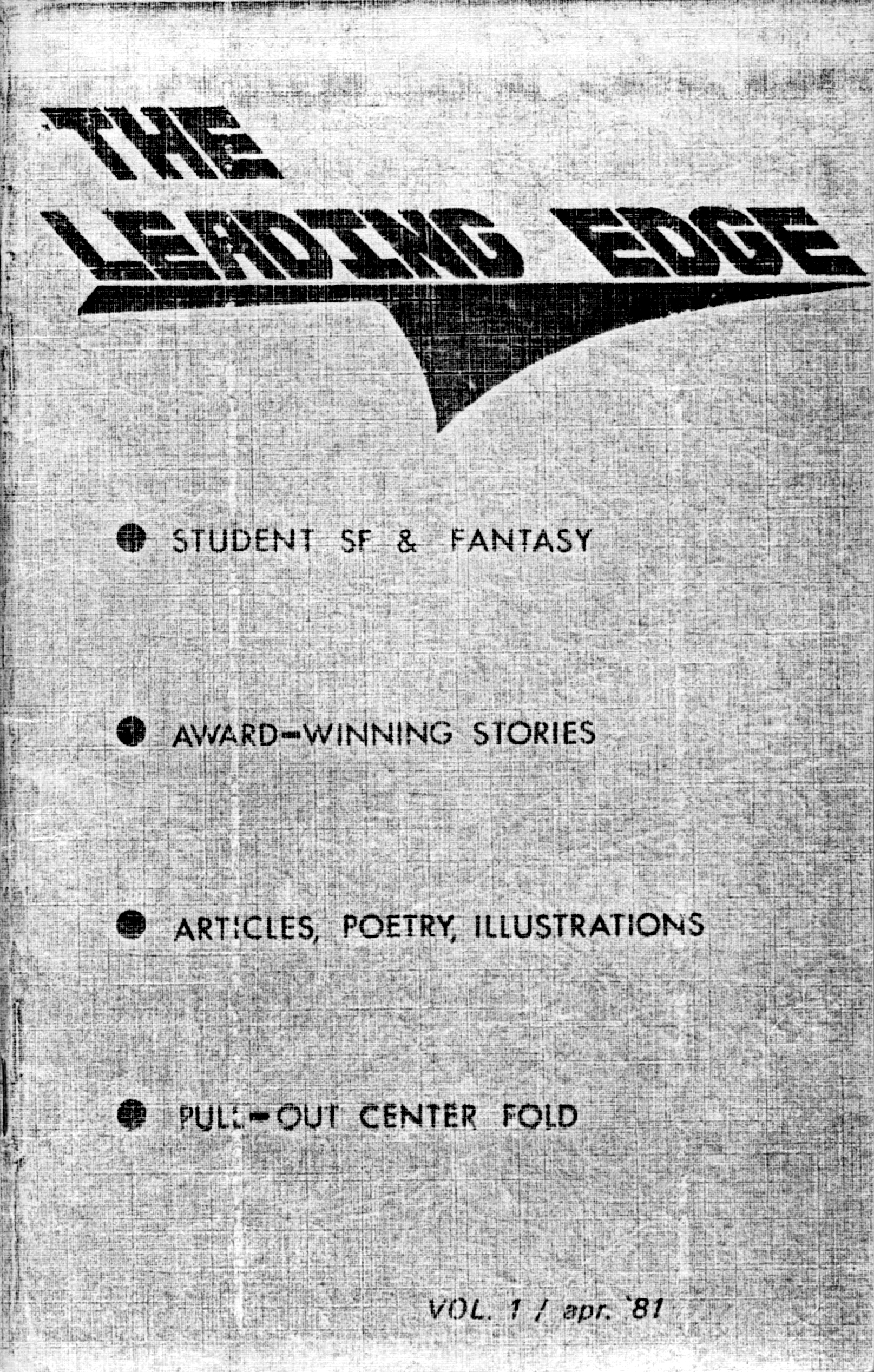 Cover of the first volume of The Leading Edge, a semi-professional science fiction and fantasy magazine published at Brigham Young University in Provo, Utah.